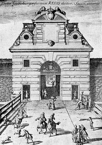 Kungsporten i Göteborg. Litografi från Suecia antiqua et hodierna ca. 1720. This work is in the public domain in its country of origin and other countries and areas where the copyright term is the author's life plus 70 years or fewer. You must also include a United States public domain tag to indicate why this work is in the public domain in the United States. Note that a few countries have copyright terms longer than 70 years: Mexico has 100 years, Jamaica has 95 years, Colombia has 80 years, and Guatemala and Samoa have 75 years. This image may not be in the public domain in these countries, which moreover do not implement the rule of the shorter term. Côte d'Ivoire has a general copyright term of 99 years and Honduras has 75 years, but they do implement the rule of the shorter term. Copyright may extend on works created by French who died for France in World War II (more information), Russians who served in the Eastern Front of World War II (known as the Great Patriotic War in Russia) and posthumously rehabilitated victims of Soviet repressions (more information). This file has been identified as being free of known restrictions under copyright law, including all related and neighboring rights.